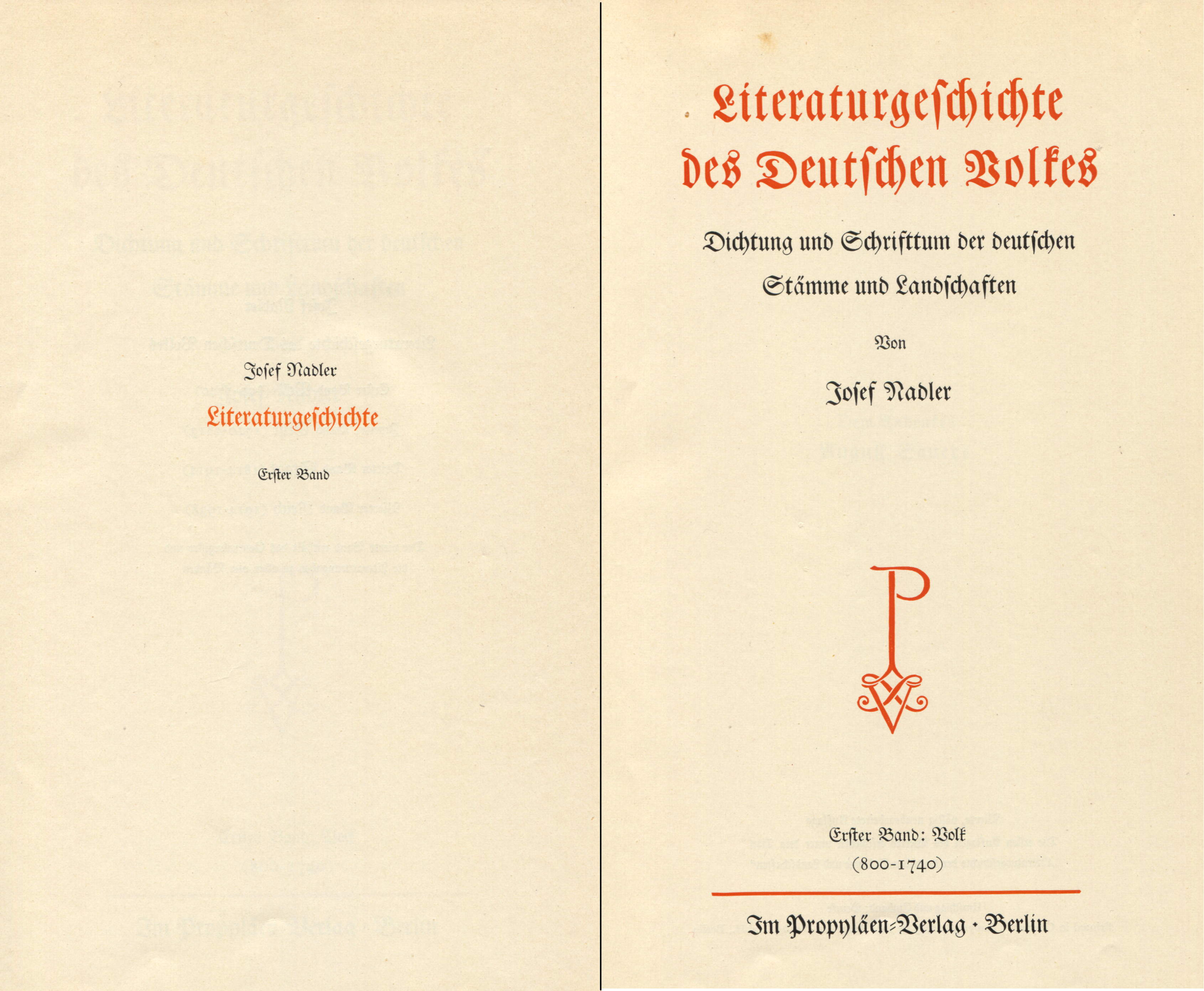 Side-by-side representaton of half title (left) and title page (right) of a book